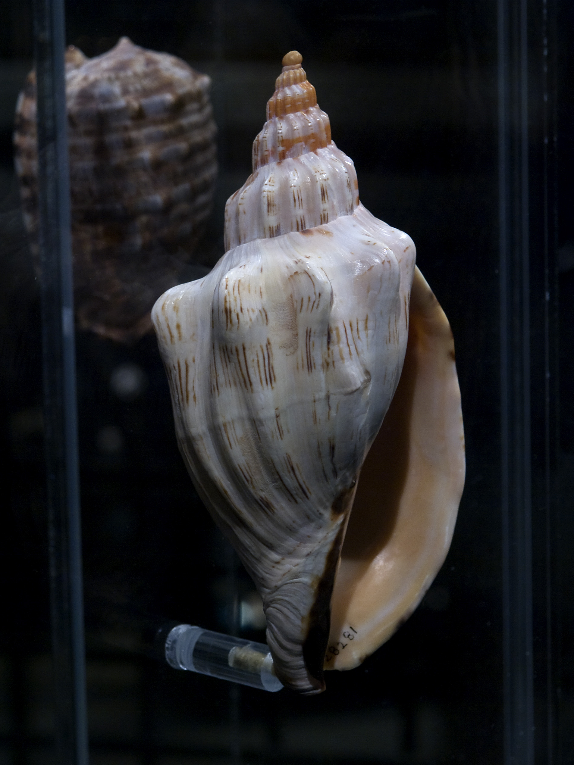 Festilyria festiva (Festive Volute) Somalia HMNS 28281 Wikipedia Loves Art at the Houston Museum of Natural Science This photo of item # 28281 at the Houston Museum of Natural Science was contributed under the team name "Assignment_Houston_One" as part of the Wikipedia Loves Art project in February 2009. Houston Museum of Natural Science The original photograph on Flickr was taken by skarsol—please add a comment to the original Flickr page whenever a use has been made on Wikipedia or another project. Project galleries on Flickr: this institution, this team